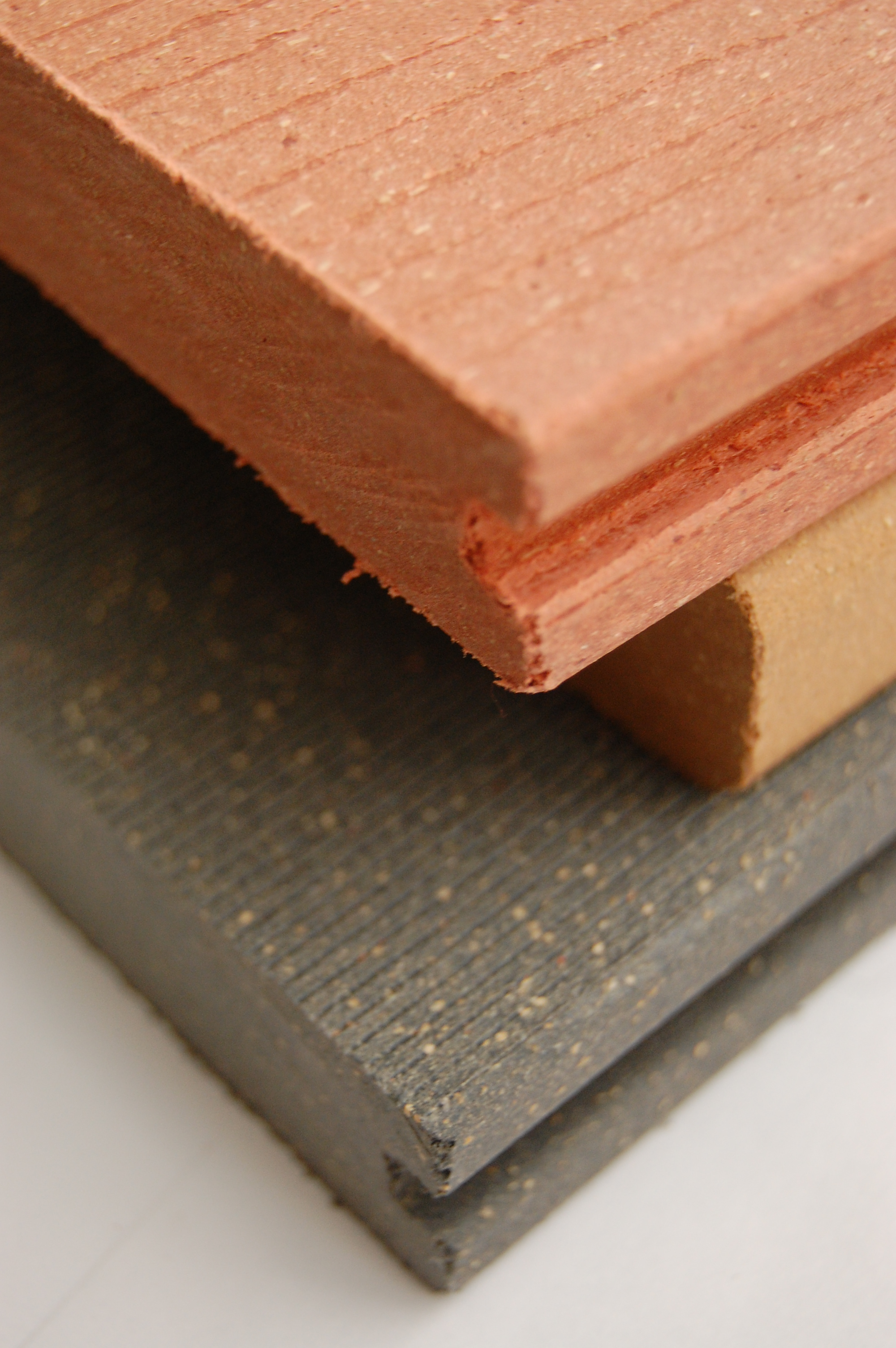 This is a picture of New-Tech brand wood plastic composite, a type of engineered wood.